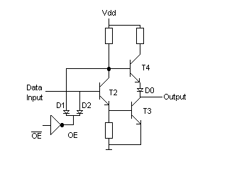 Three-state inverter